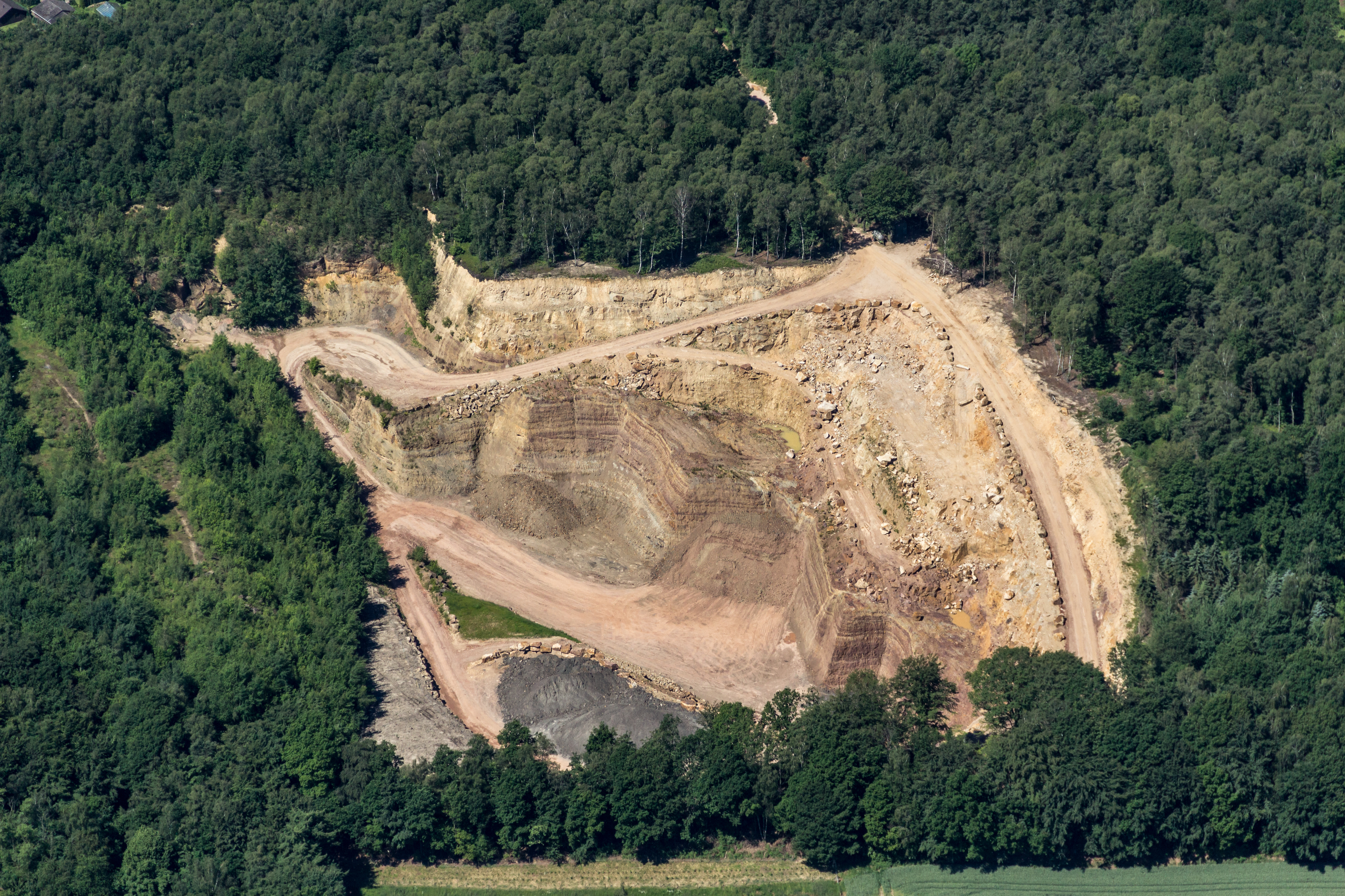 Ziegelei-Tongrube Querenberg, Mettingen, North Rhine-Westphalia, Germany